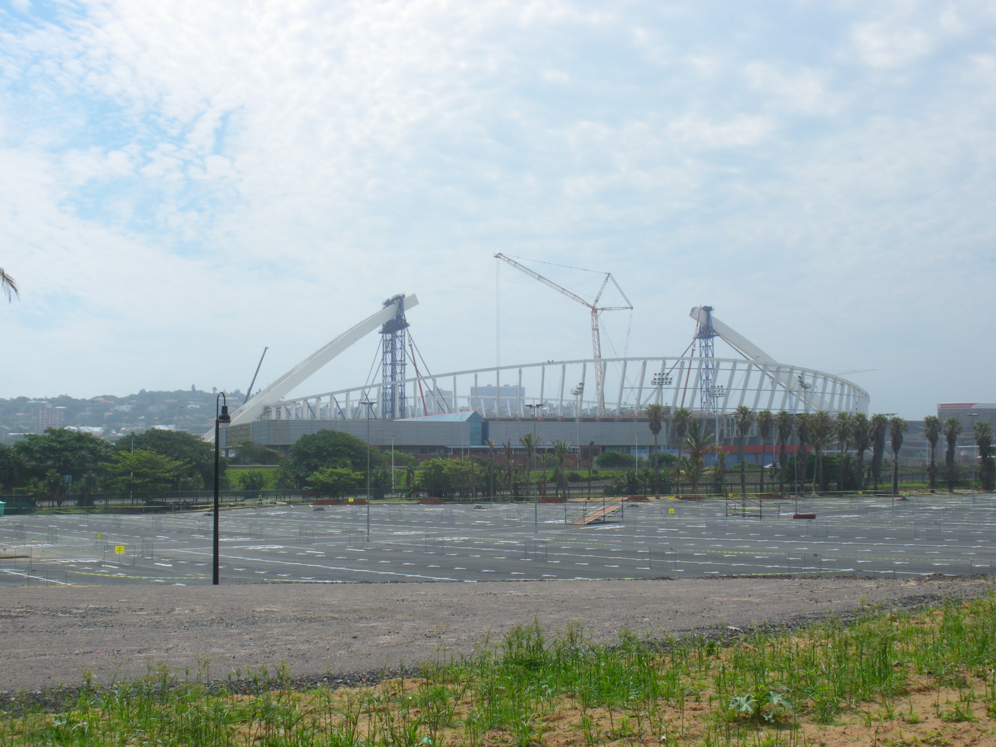 Moses Mabhida Stadium under construction, Durban, South Africa